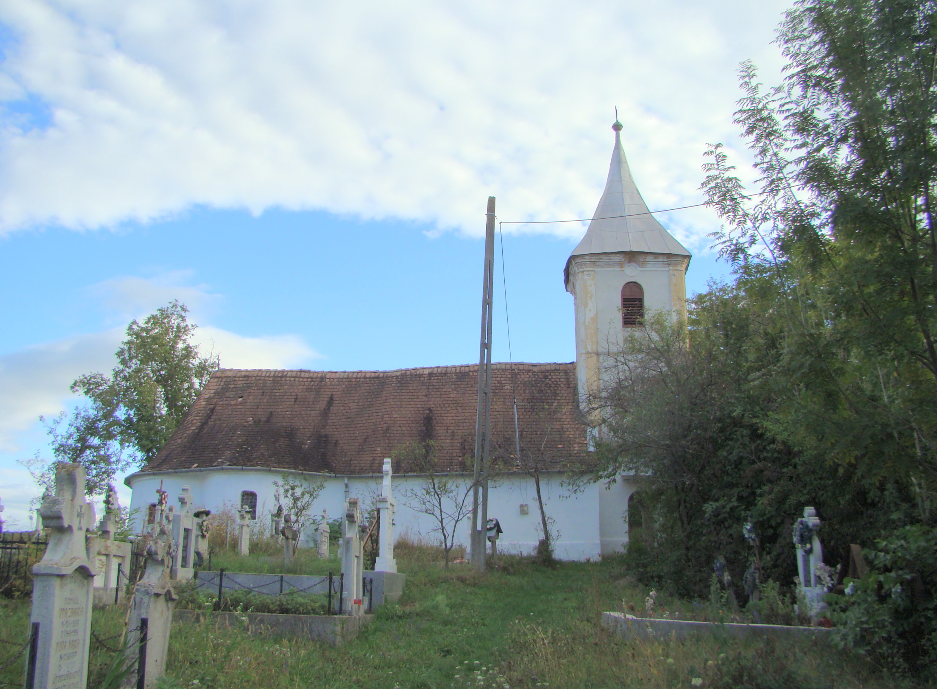 Archangels' church in Lepindea, Mureş county, Romania